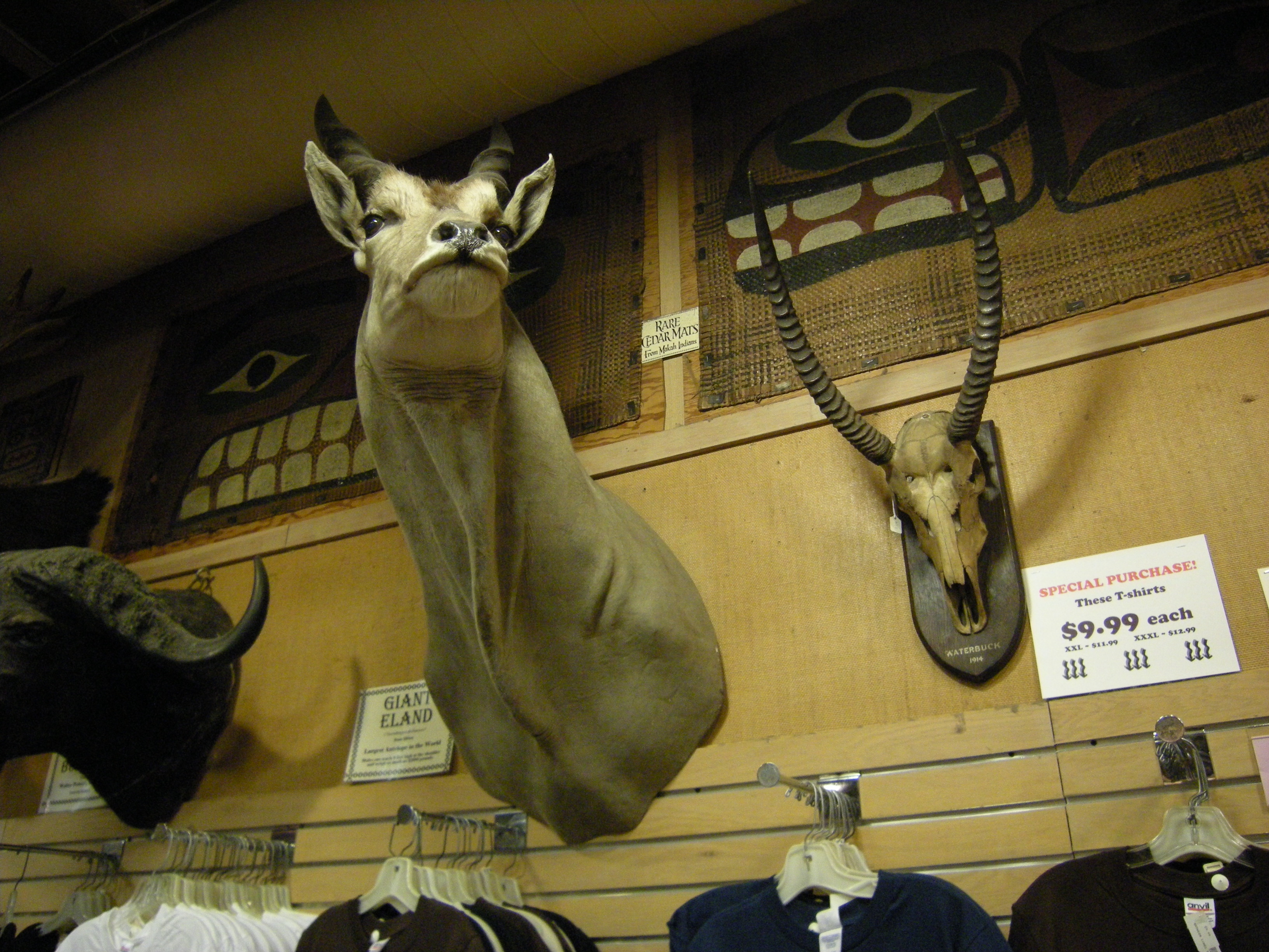 Trophy head of a Giant Eland and antlers of a Waterbuck in the permanent collection of Ye Olde Curiosity Shop, Seattle, Washington.